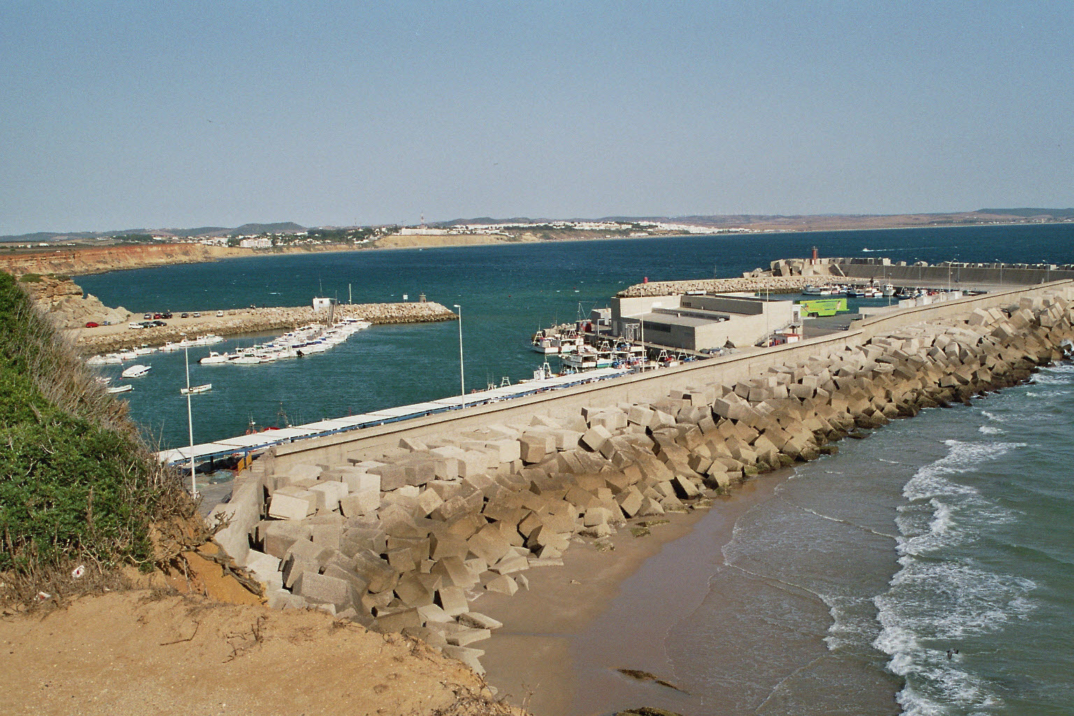 The Harbor of Conil de la Frontera, Province of Cádiz, Spain